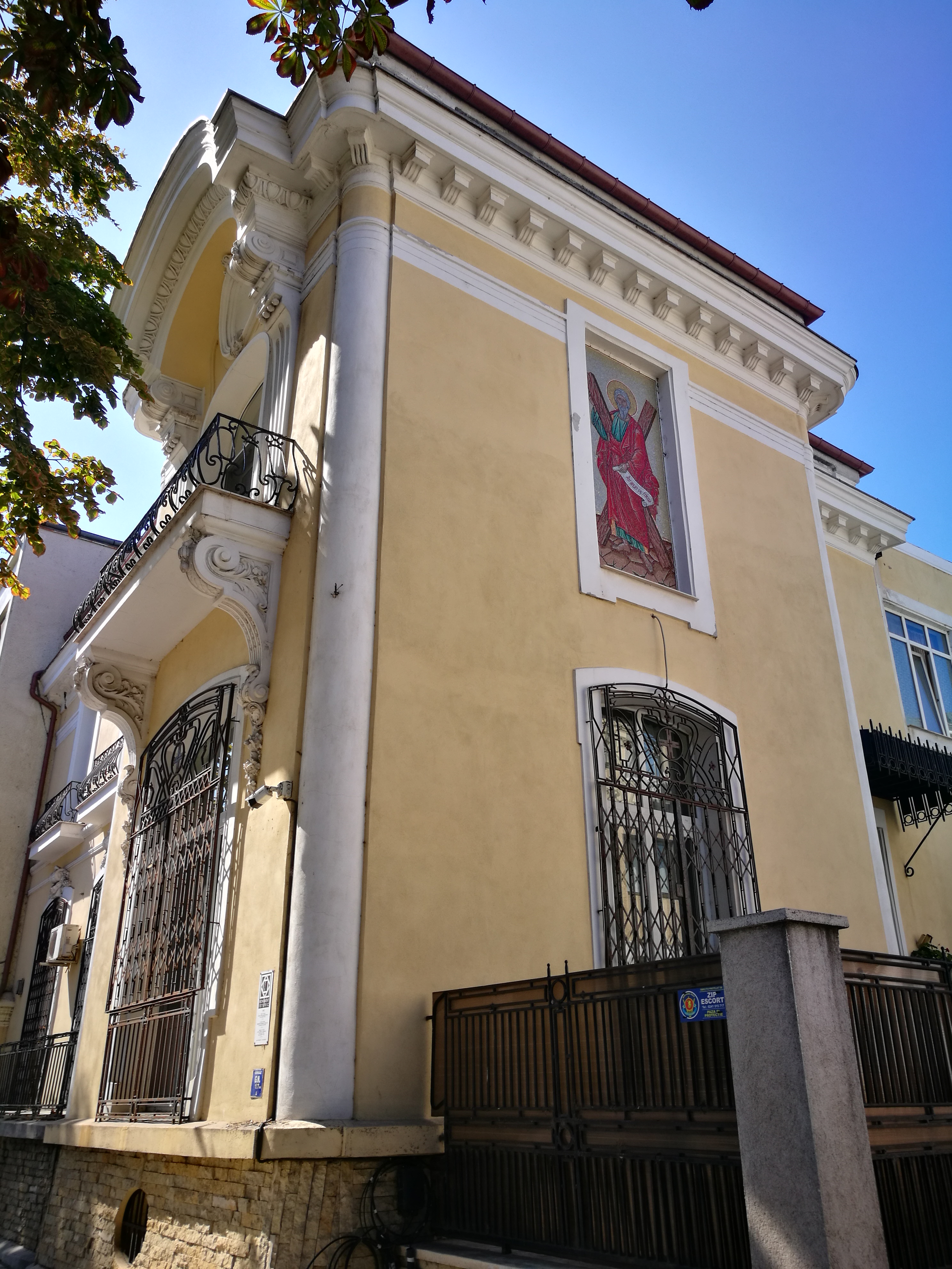 N. Pilescu house nowadays archbishop' s dwelling, eclectic style